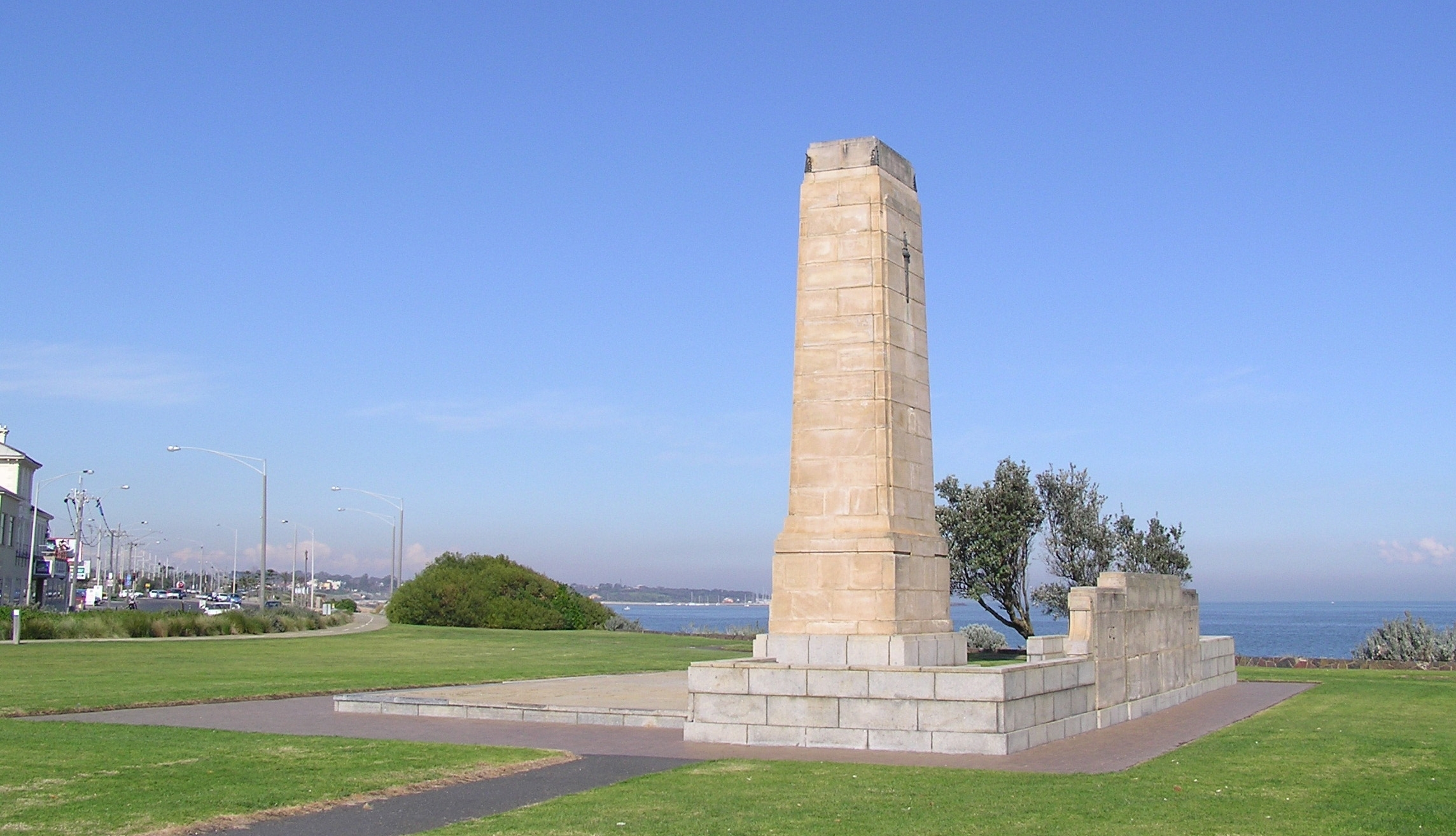 Brighton Beach esplanade and beach road looking towards Sandringham, from a long way away at Brighton Beach, Melbourne